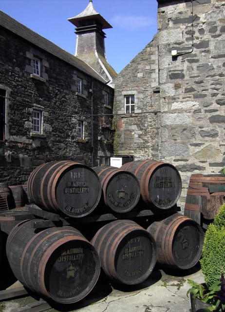 Bladnoch Distillery Bladnoch distillery, Wigtown.